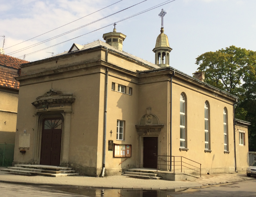 Greek Catholic church in Poznań at Torunska Str 8